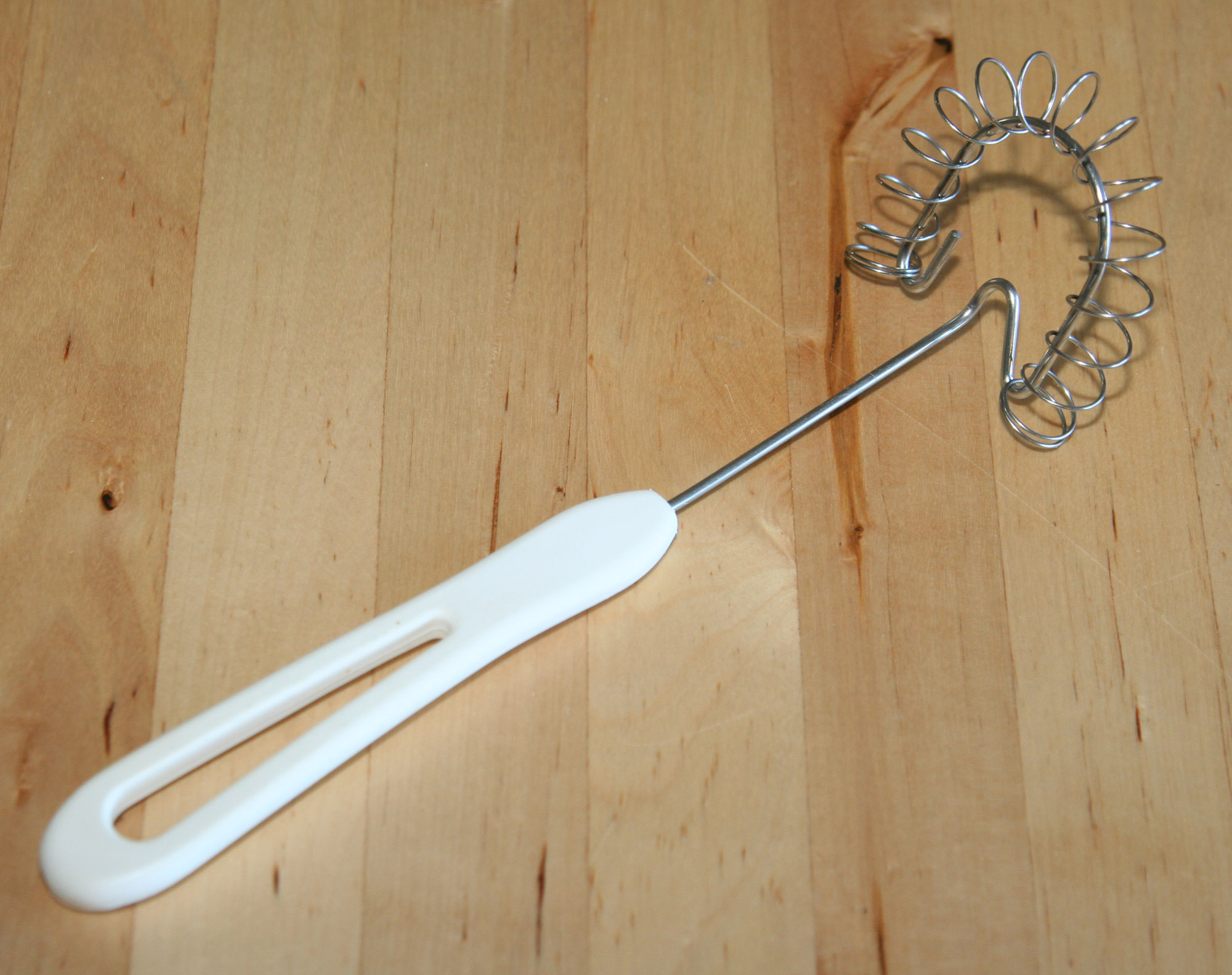 Whisk with coil spring (?)